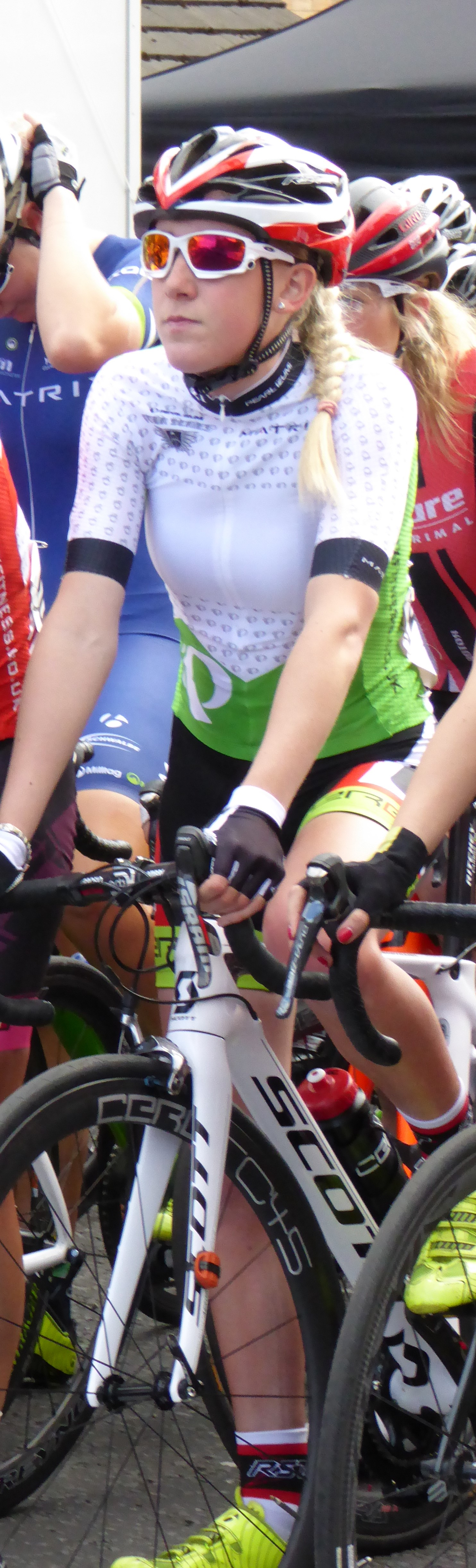 Jessie Walker, before Round 2 of the Matrix Fitness GP Series in Motherwell, on 26 May 2015